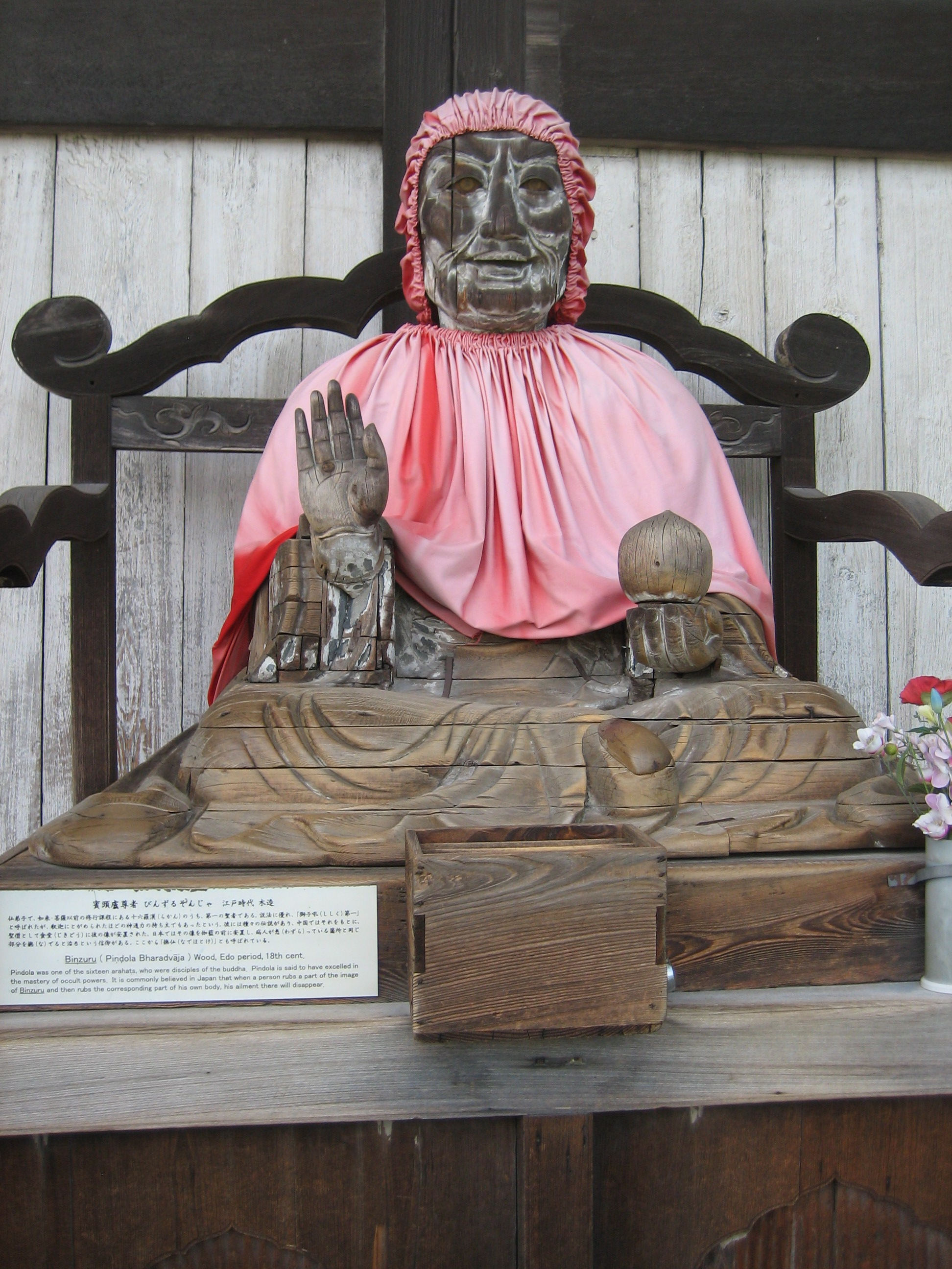 wooden image of arhat Pindola-Bhāradvāja to the right of entrance of Tōdai-ji temple in Nara, Japan. It is belived, that touching a body part of the image and then the corresponding part of the own body will cure disease in this limb.